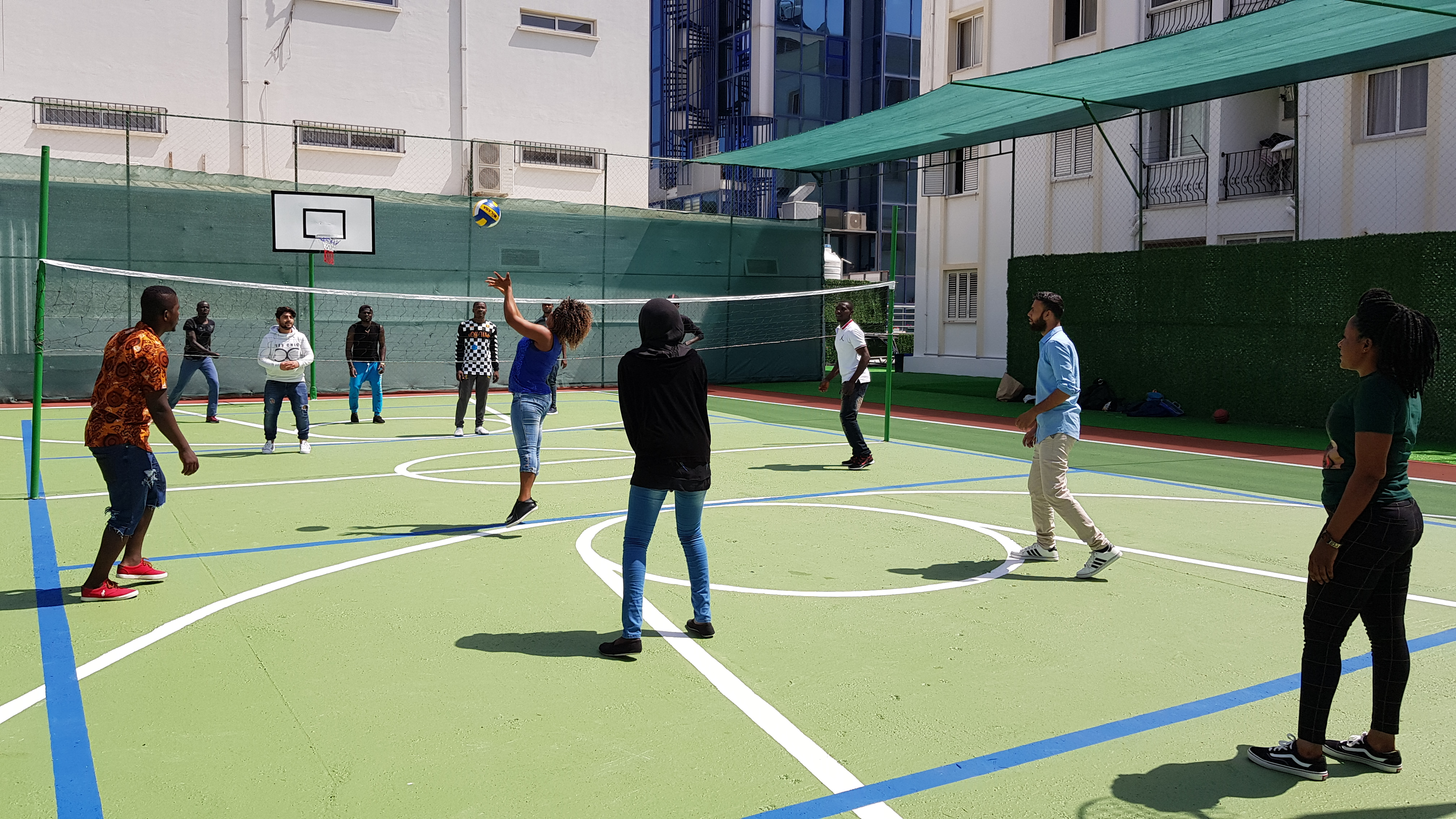 cwu-sport